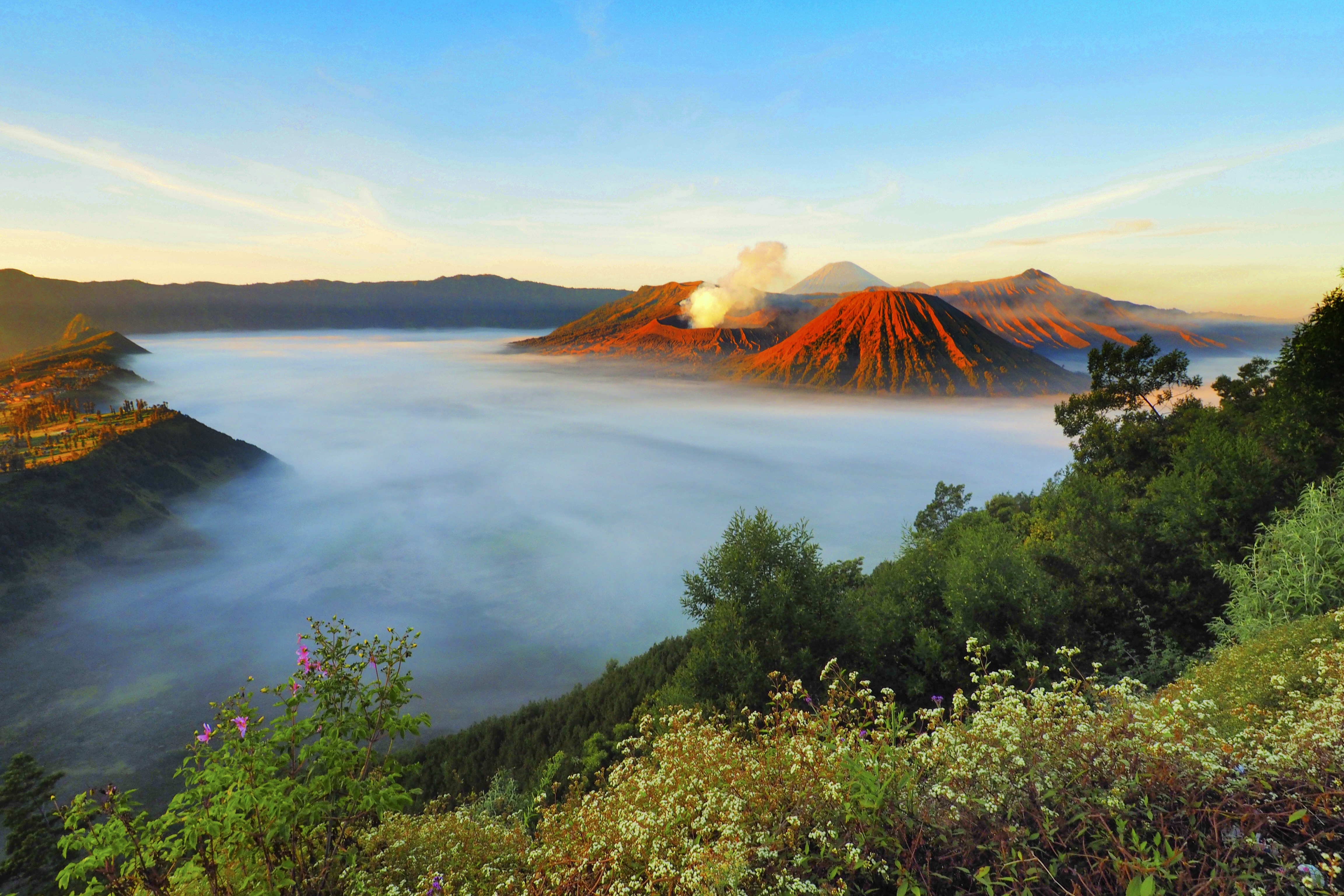 The Beauty of Mount Bromo, Mount Batok and Mount Semeru in a warm sunrise where the fog still covered the sea of sand of Bromo in the silent morning. The volcanoes belong to the Bromo Tengger Semeru National Park.